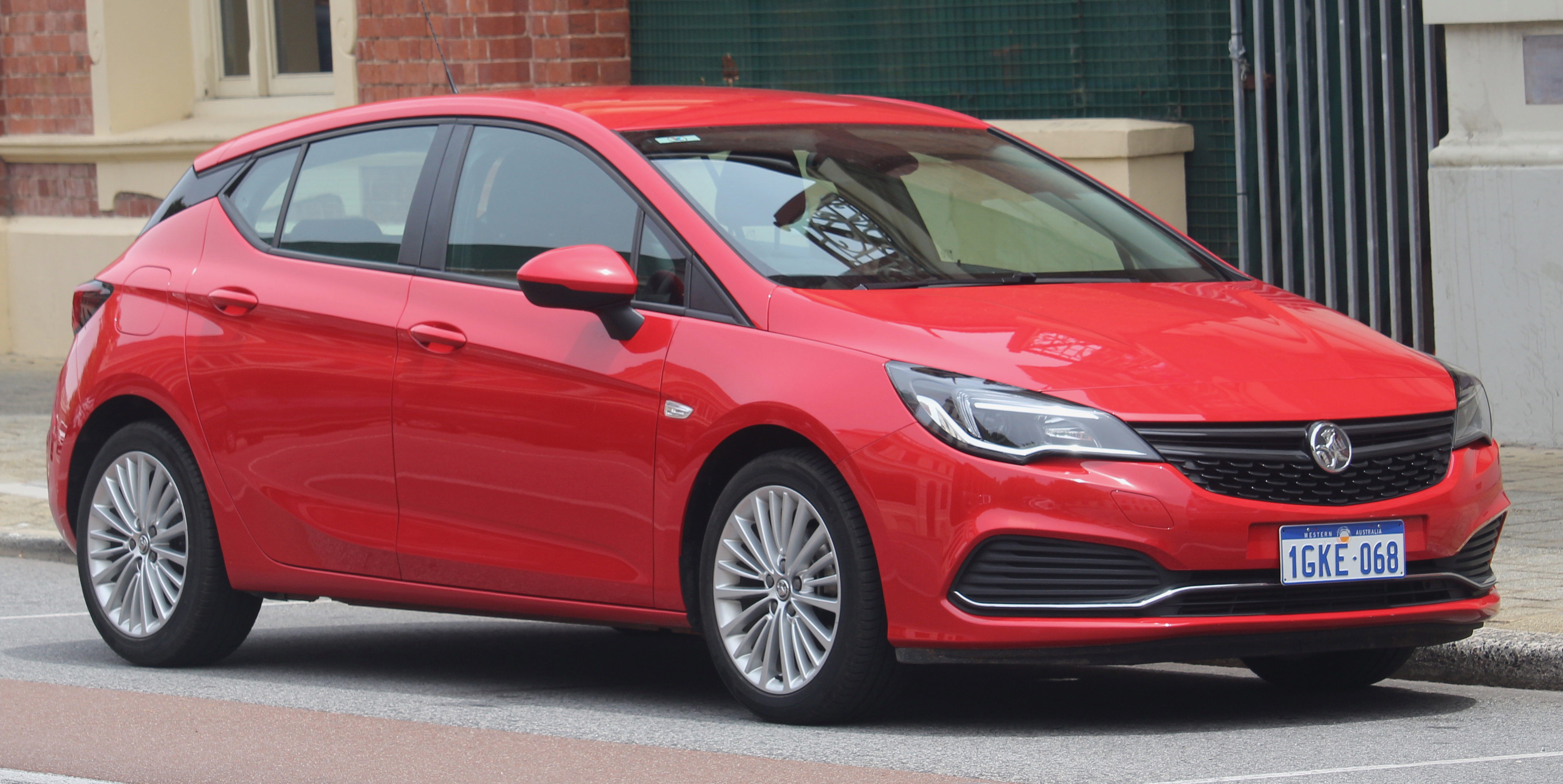 2017 Holden Astra (BK) R hatchback. Photographed in Fremantle, Western Australia, Australia.